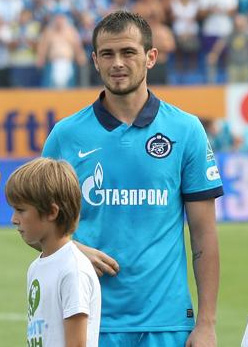 Serbian forward Danko Lazović